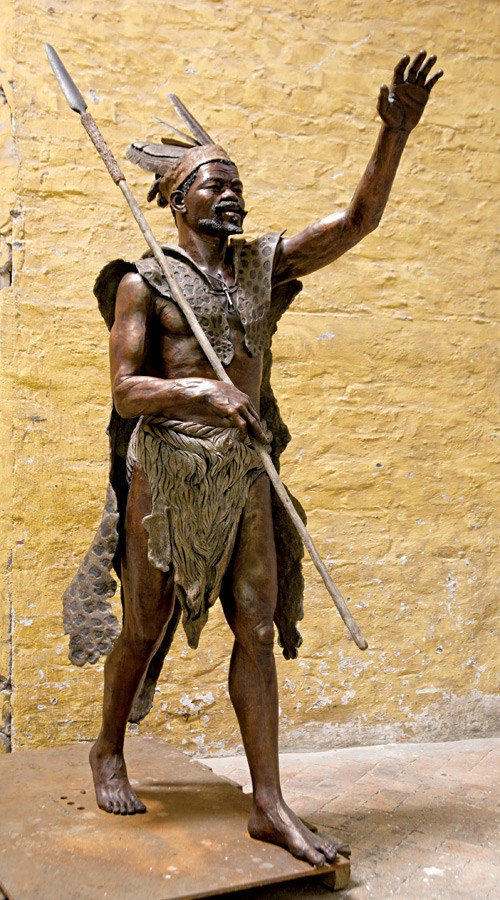 Sculpture of King Faku (by Xhanti Mpakama)